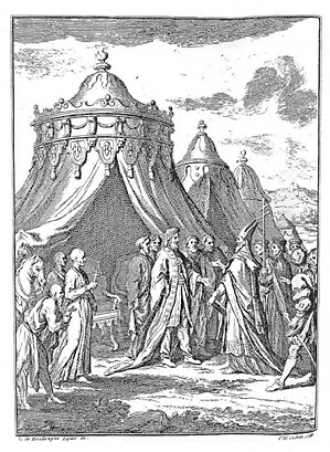 Sosenyos is introduced to Alfonso Mendes